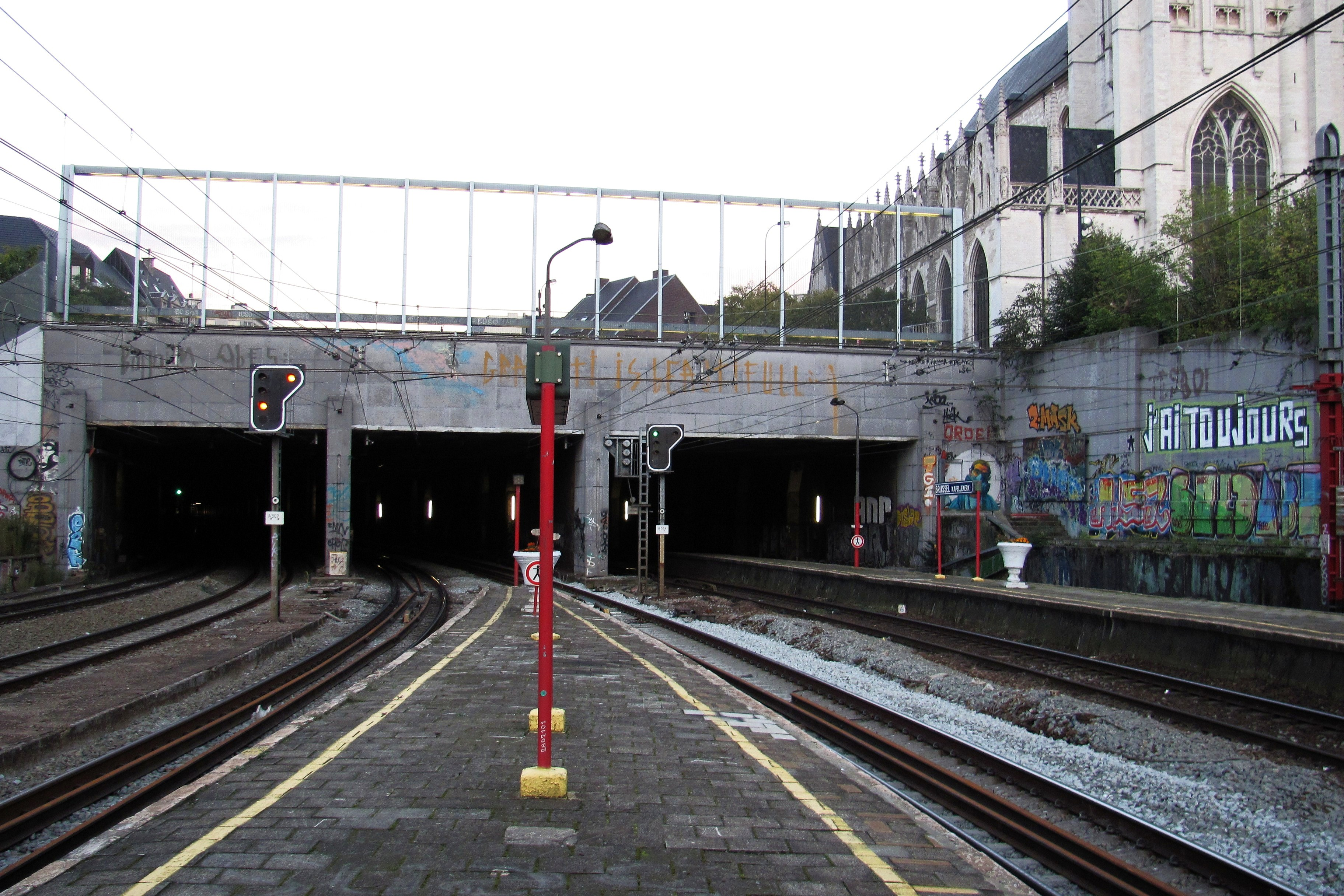 Station Brussels-Chapelle. Tunnel entry of the Brussels north-south connection.